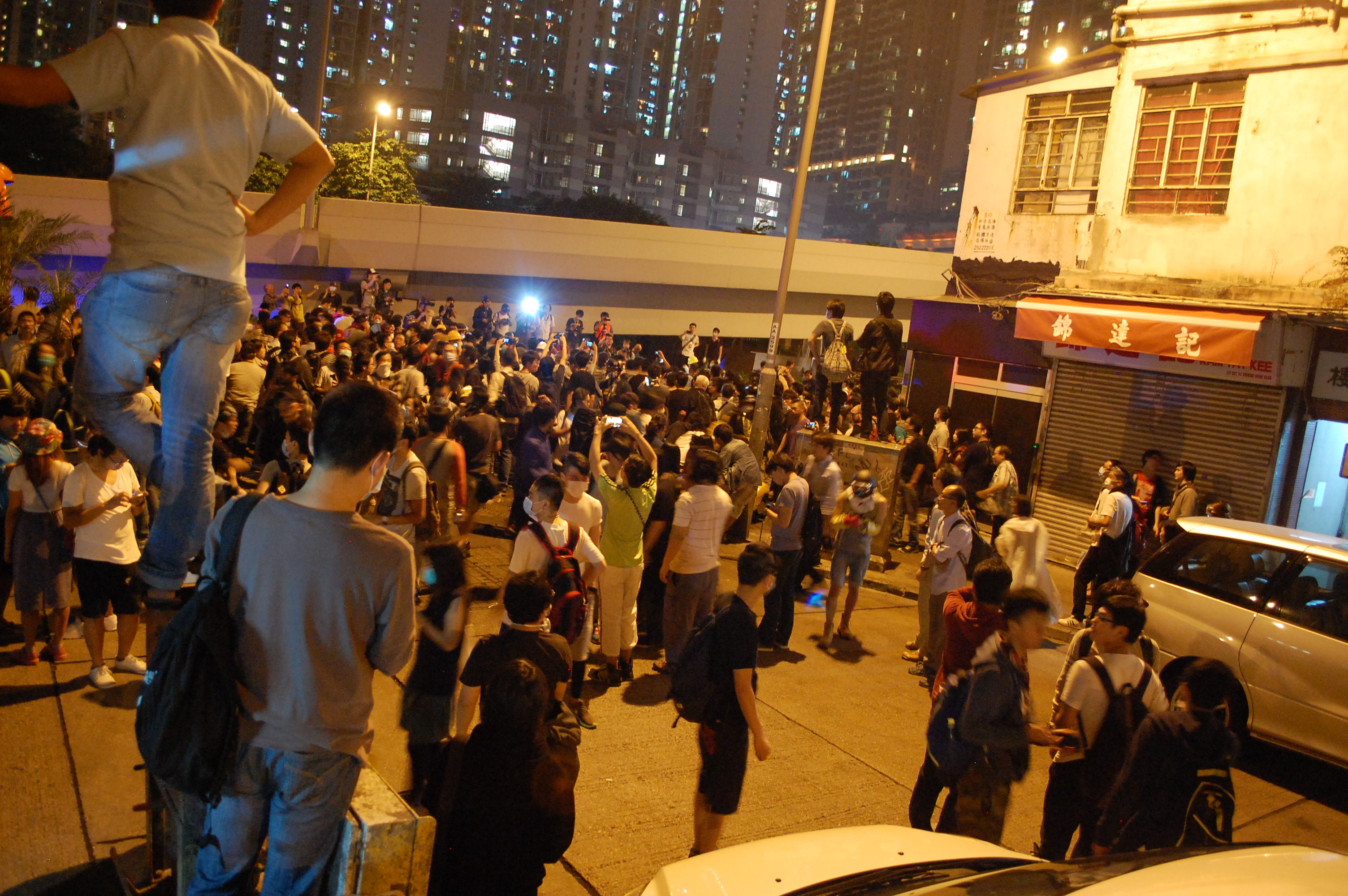 Umbrella Movement protests, Mong Kok, Hong Kong on 25 November 2014. Soy Street and Ferry Street.